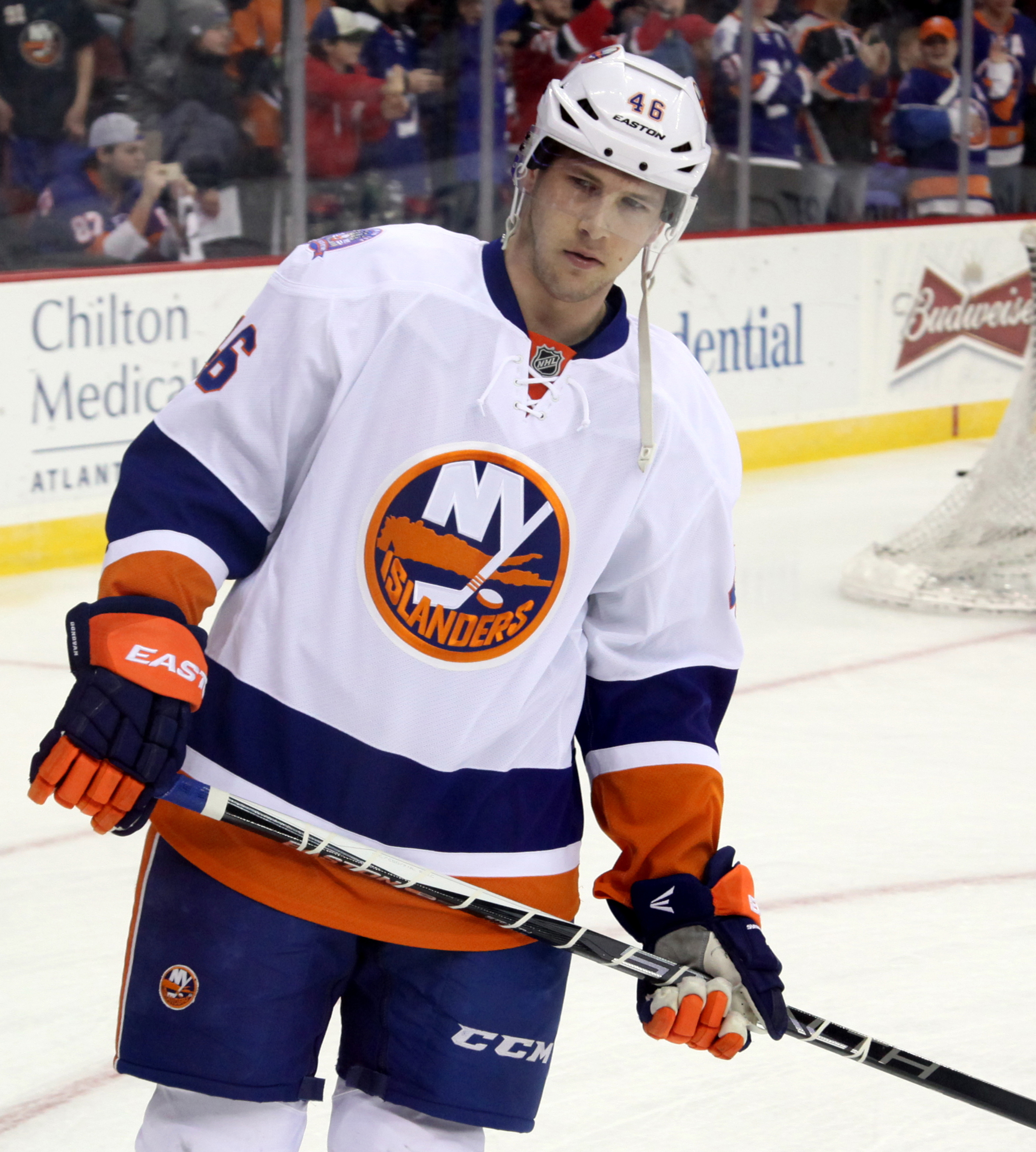 Matt Donovan in March 2015.